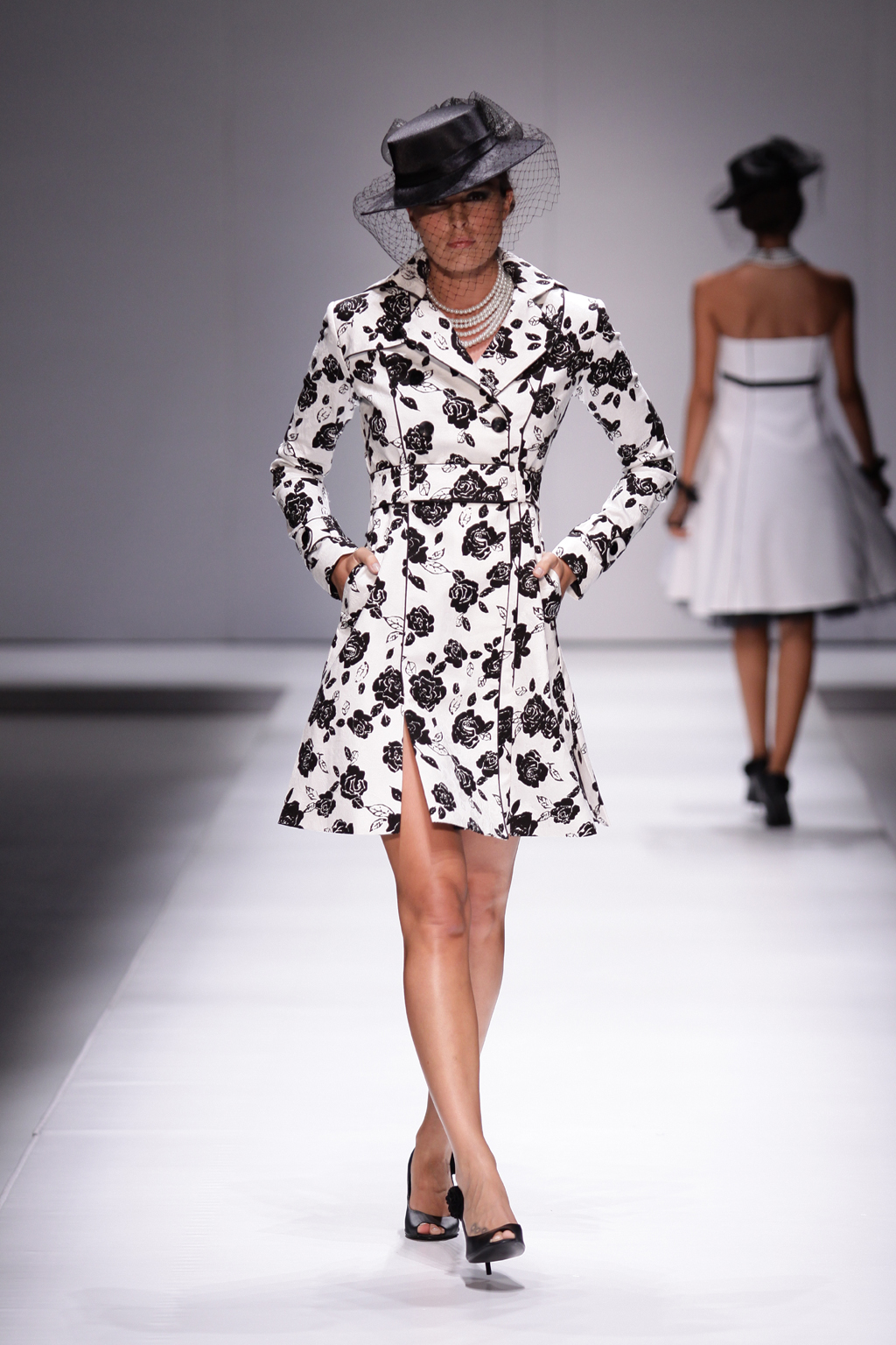 Runway model; Abigail Keats Autumn/Winter 2010 collection; Audi Fashion Week. Sandton Convention Centre, Johannesburg, South Africa